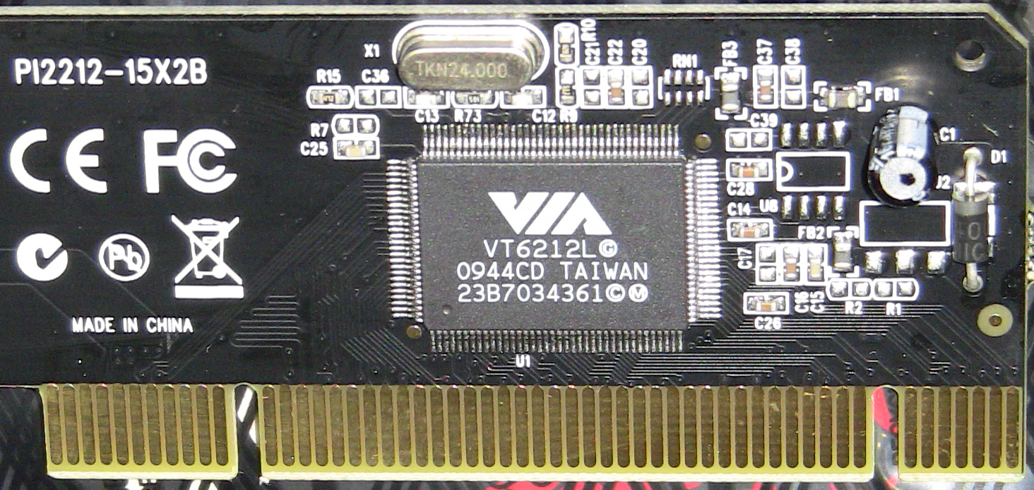 A VIA VT6212L chipset on a Rosewill USB 2.0 PCI Expansion card